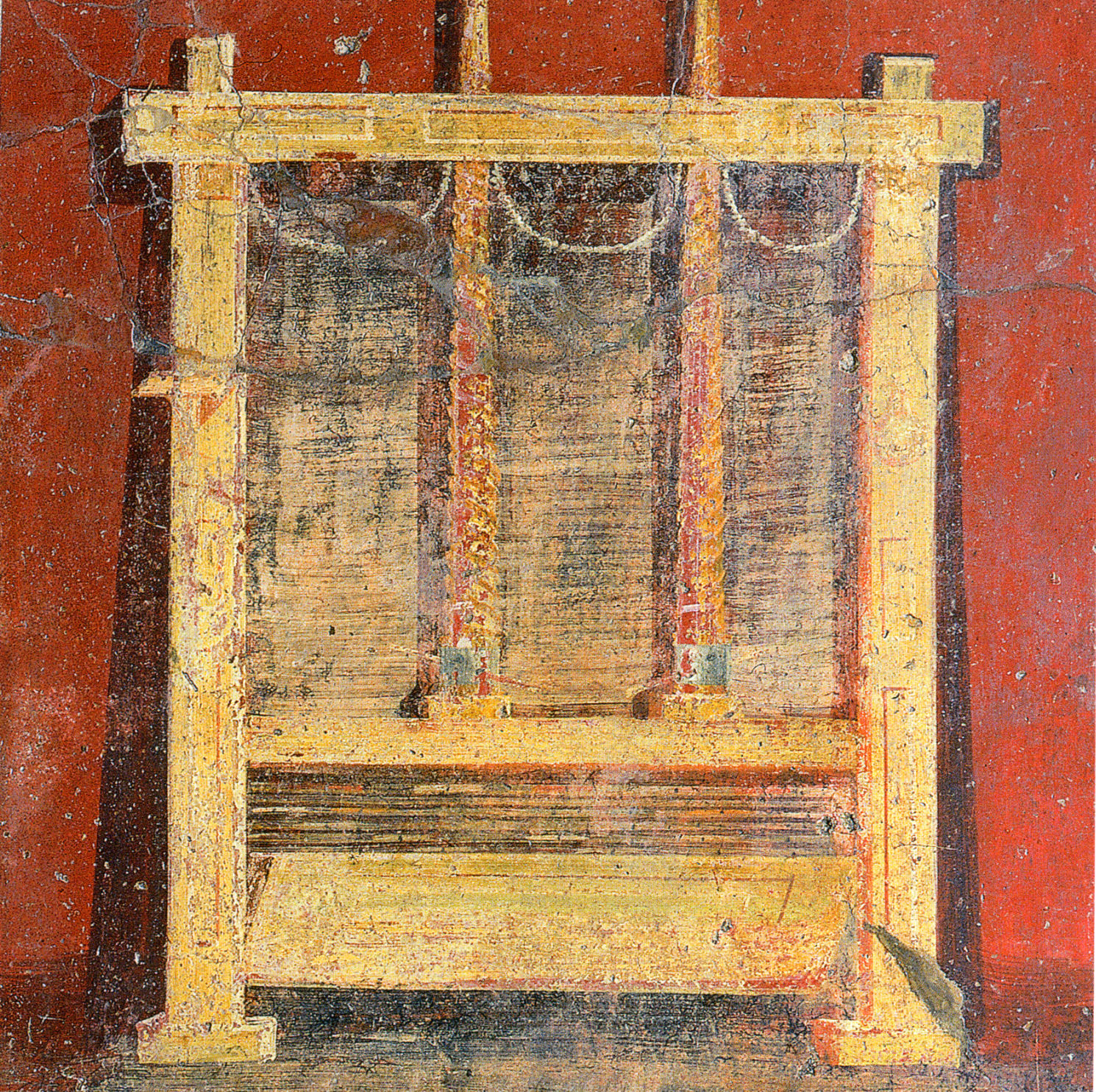 Pressing machine for cloth and felt. Roman fresco from the fullonica (dyer's shop) of Veranius Hypsaeus in Pompeii. Museo Archeologico Nazionale (Naples)